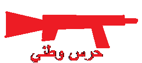 logo of the egyptian national guard , made it myself because the original is copyrighted